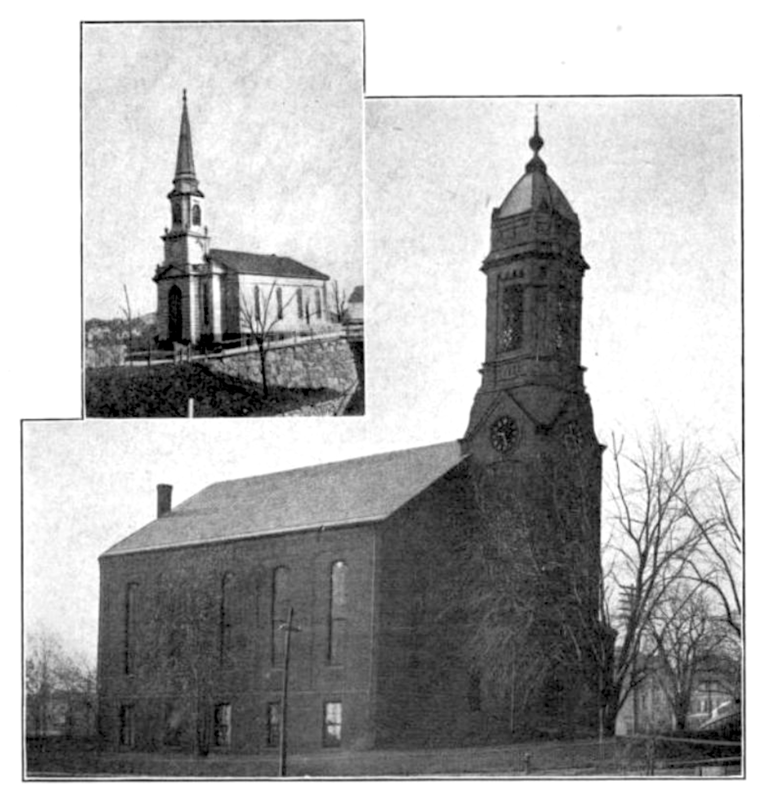 The first and second buildings of the First Universalist Church in Somerville, Massachusetts, depicted c.1905.